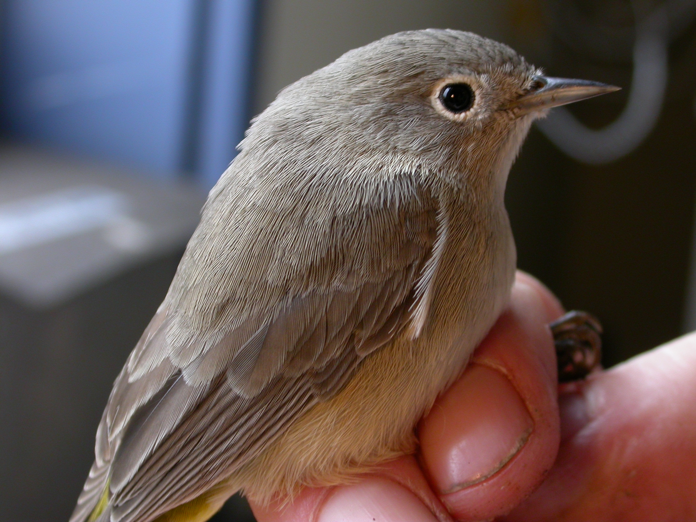 Vermivora virginiae, Virginia's Warbler. Female adult, caught and banded at the Farallon Islands